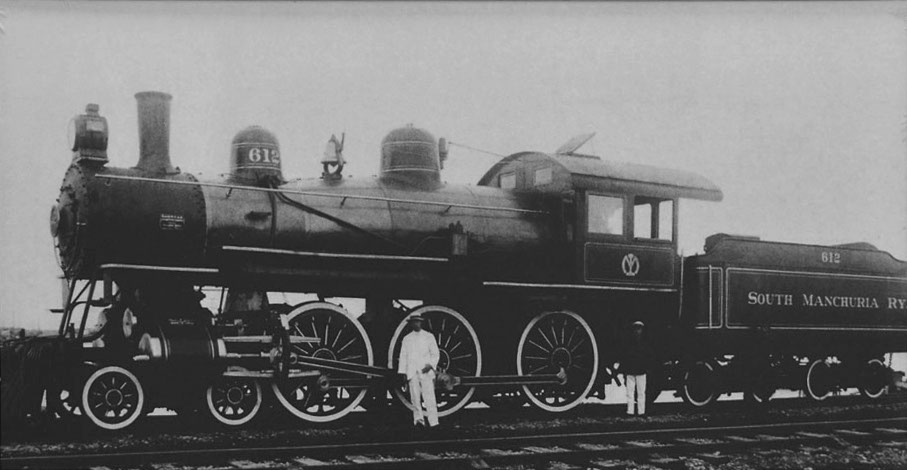 Locomotive number 612, class F1, of the South Manchuria Railway (later SMR class Tehoi, later China Railways class TH1)